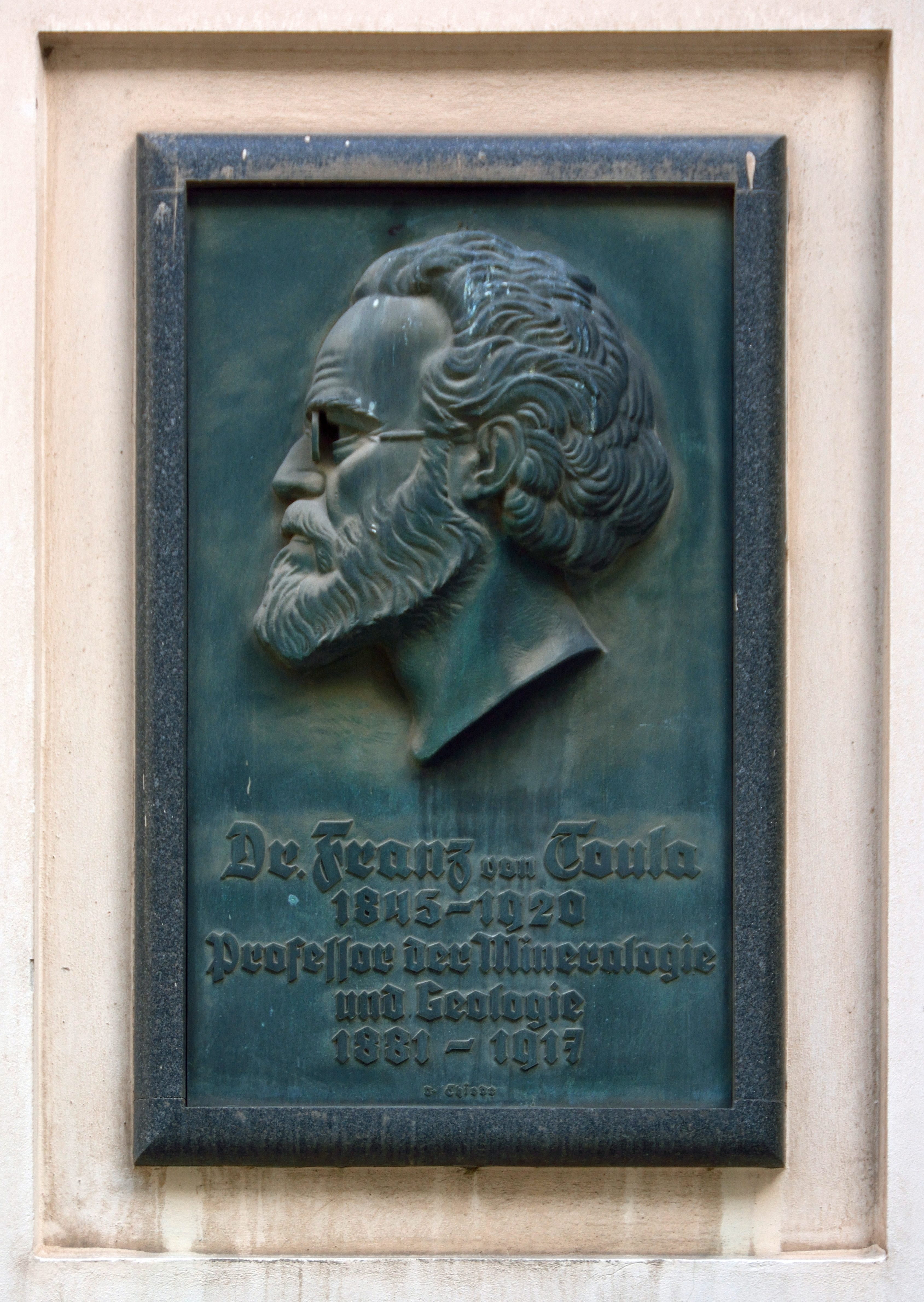 Plaque to Franz von Toula (1845-1920), courtyard of the Vienna University of Technology, 4th district of Vienna